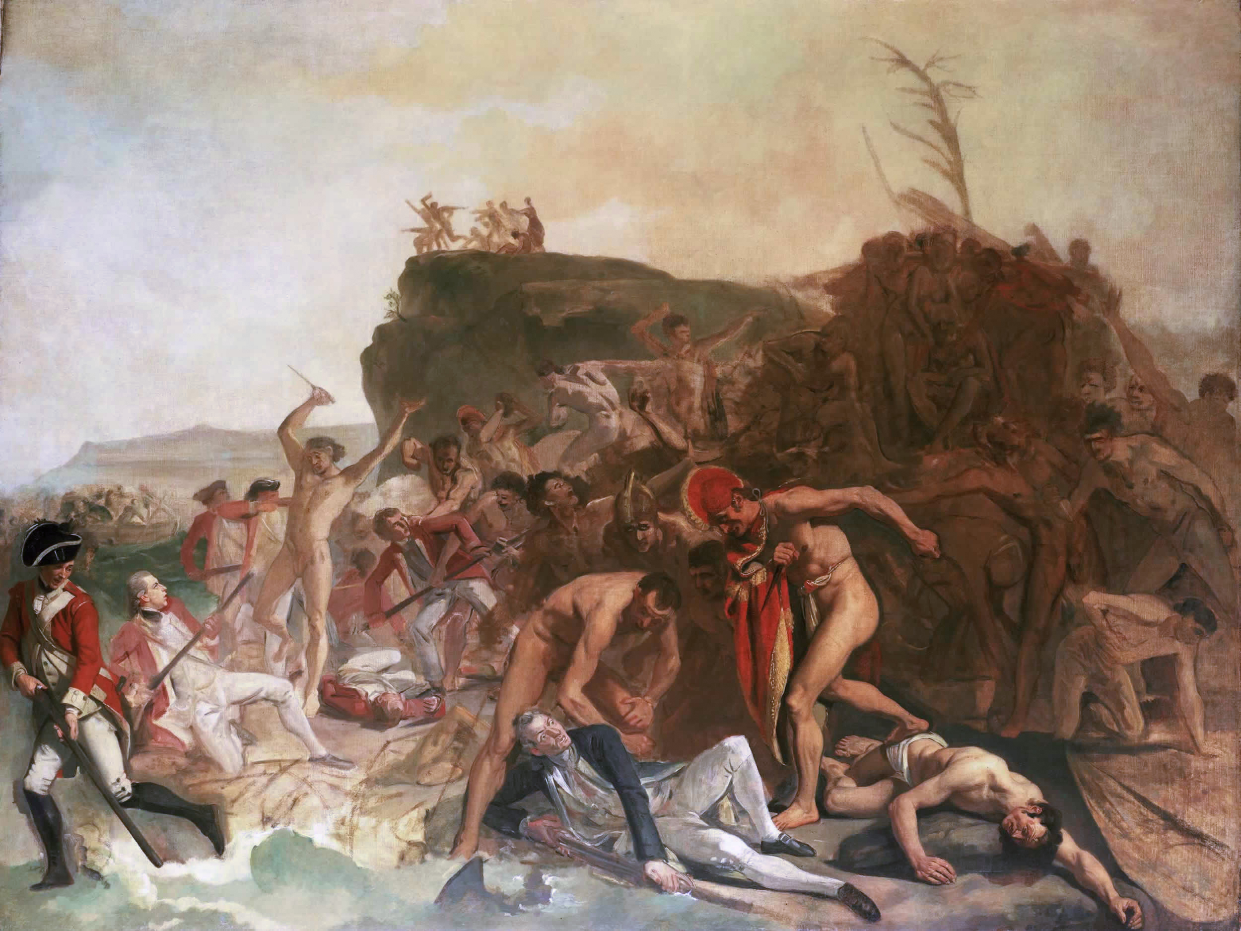 The native is carrying a feather helmet and cloak that are in the Vienna museum (Zoffany borrowed them for the painting)